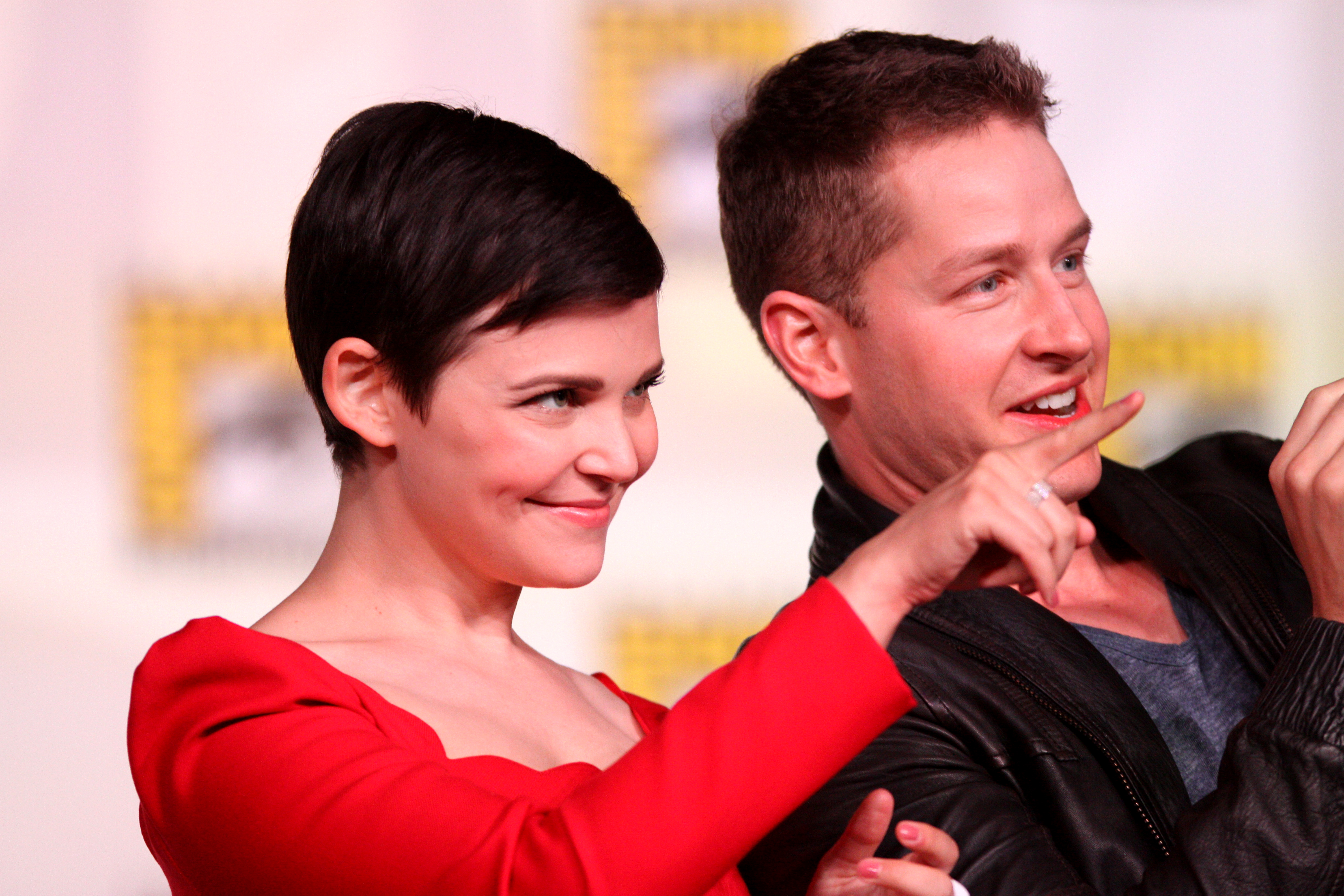 Ginnifer Goodwin & Josh Dallas speaking at the 2012 San Diego Comic-Con International in San Diego, California.